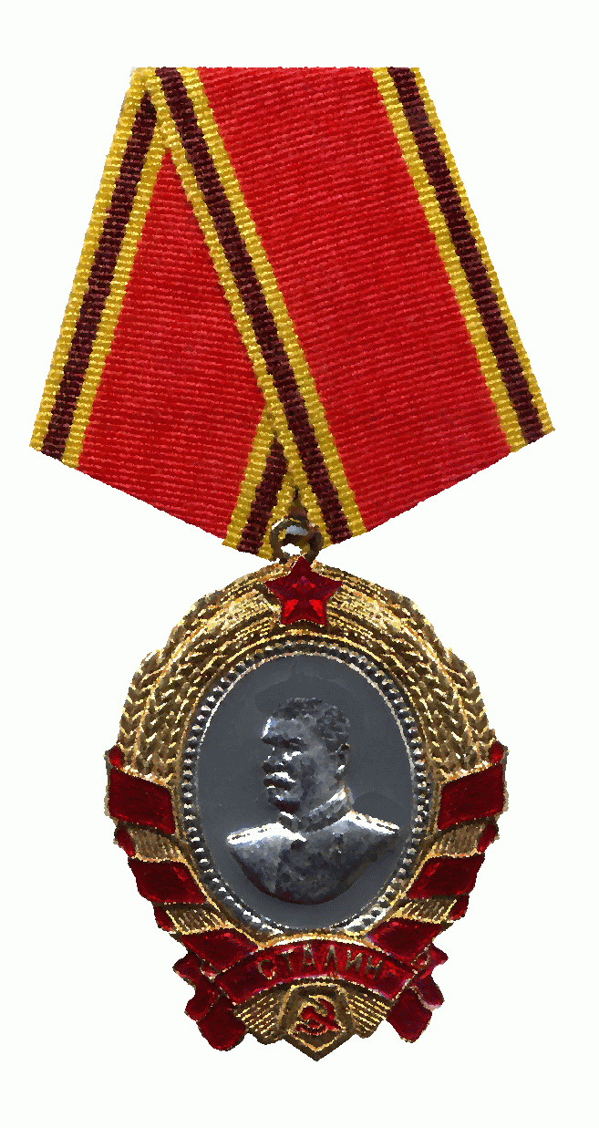 Order of Stalin